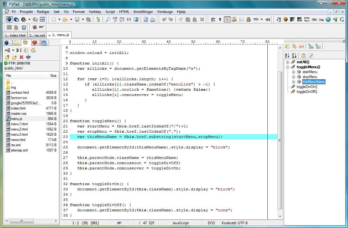 File editing via FTP with PSPad